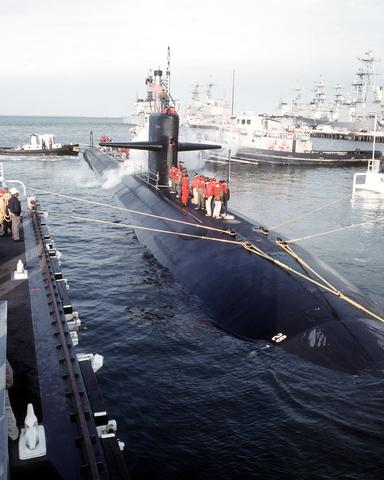 USS Memphis (SSN-691)